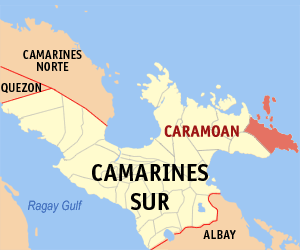 Map of Camarines Sur showing the location of Caramoan